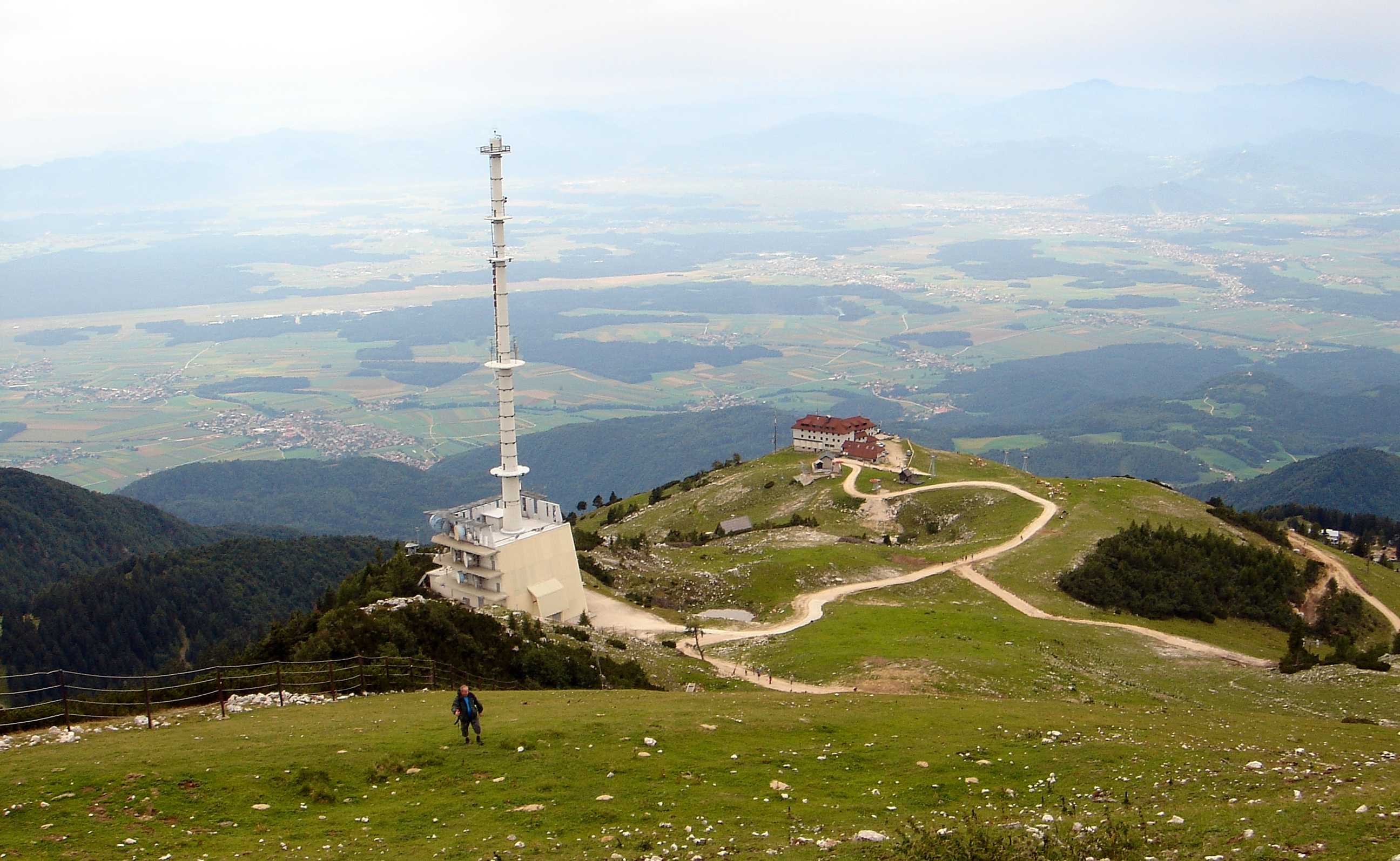 View from Krvavec